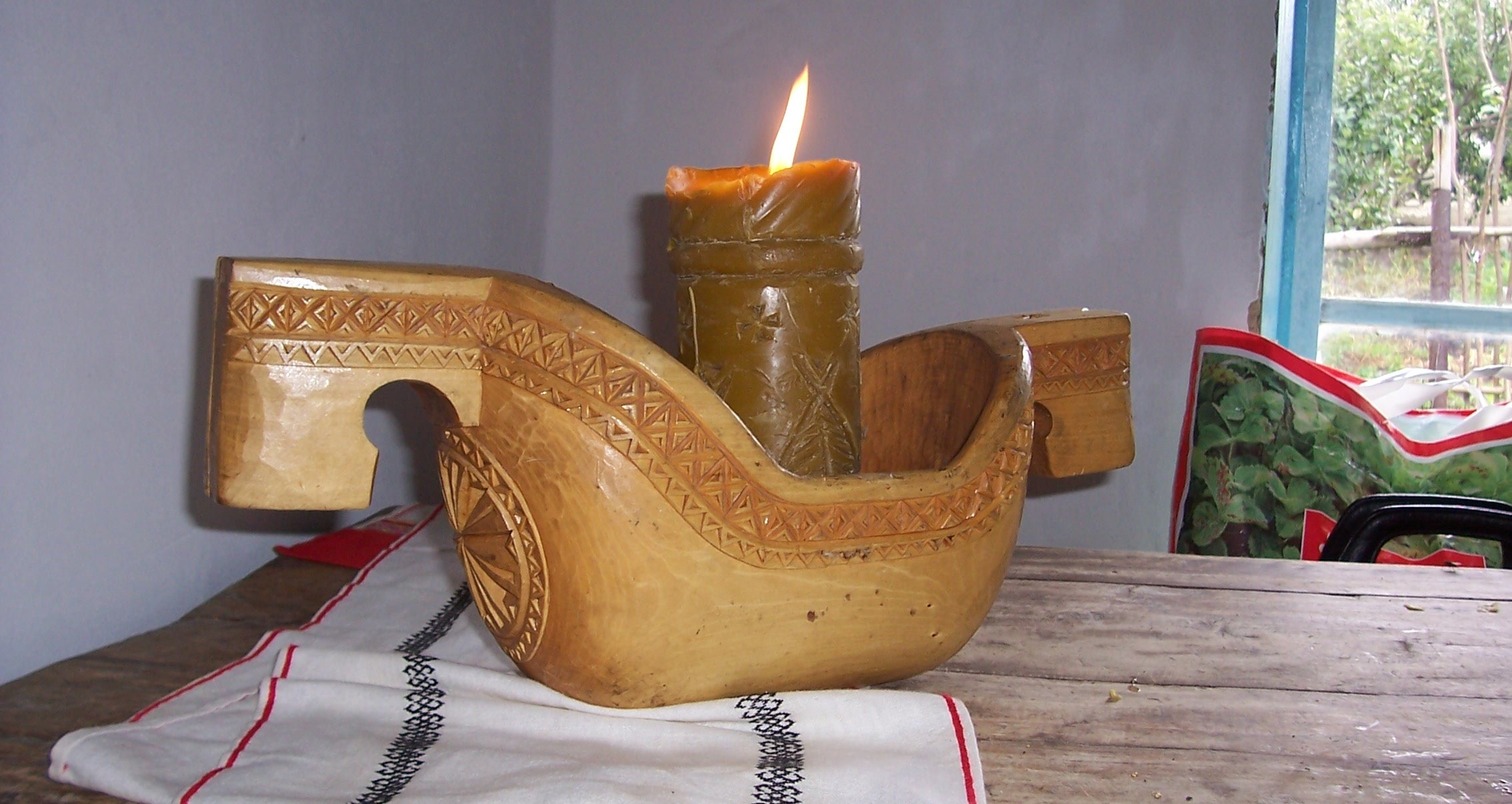 The funeral candle (statol) burns. MUK «Ethnographic Museum «Ethno-kudo» named after V. Romashkin». Podlesnaya Tavla, Kochkurovsky district of Mordovia.